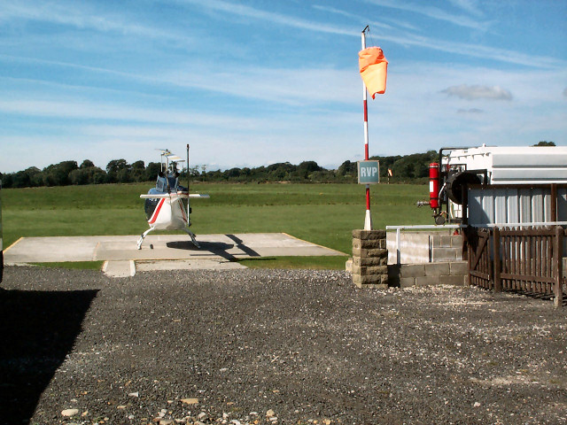 Leeds Heliport. On the northwestern side of the A658.